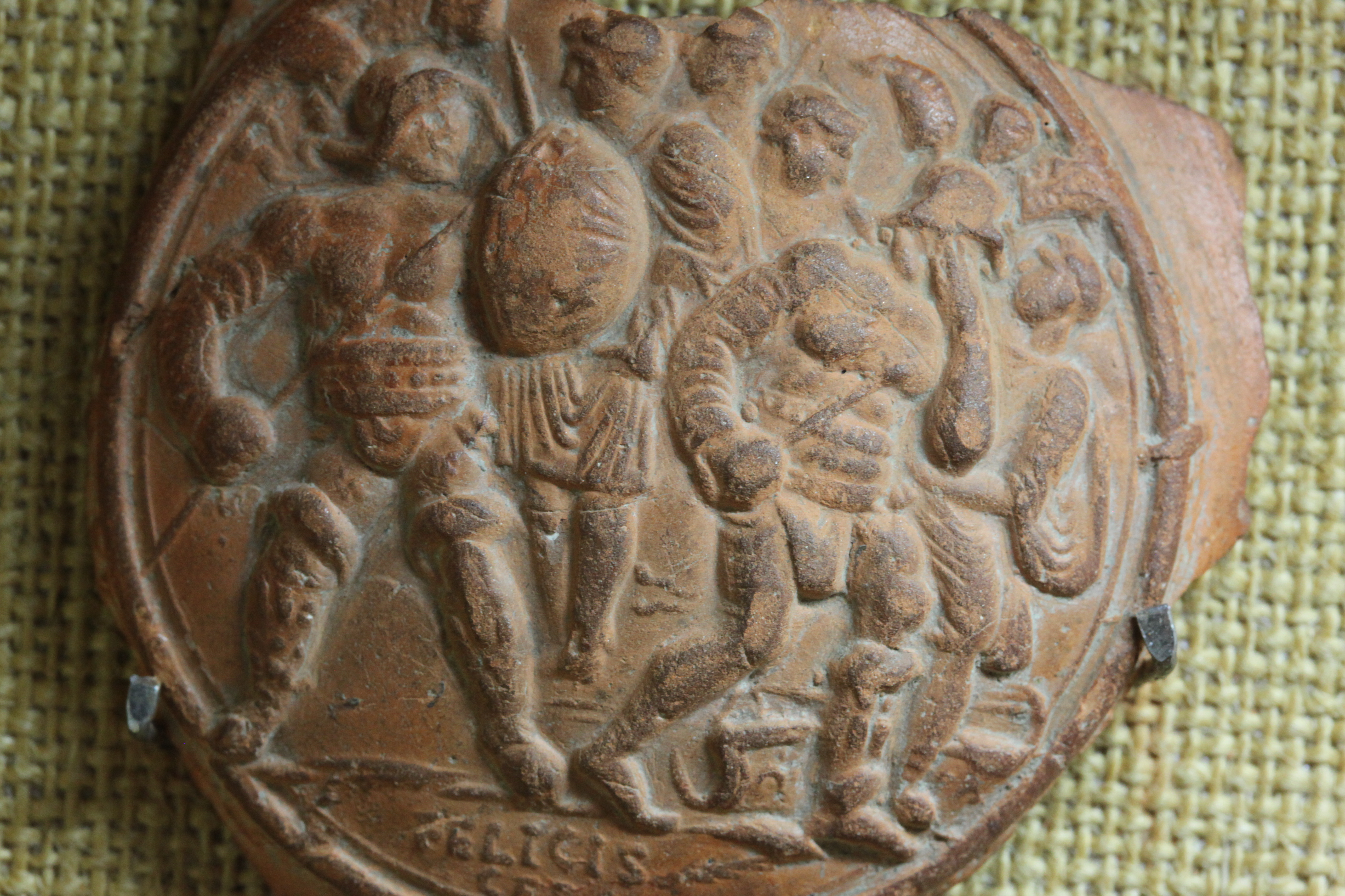 Fragment of pottery and oil lamps. On display at Fourvière Gallo-Roman museum.